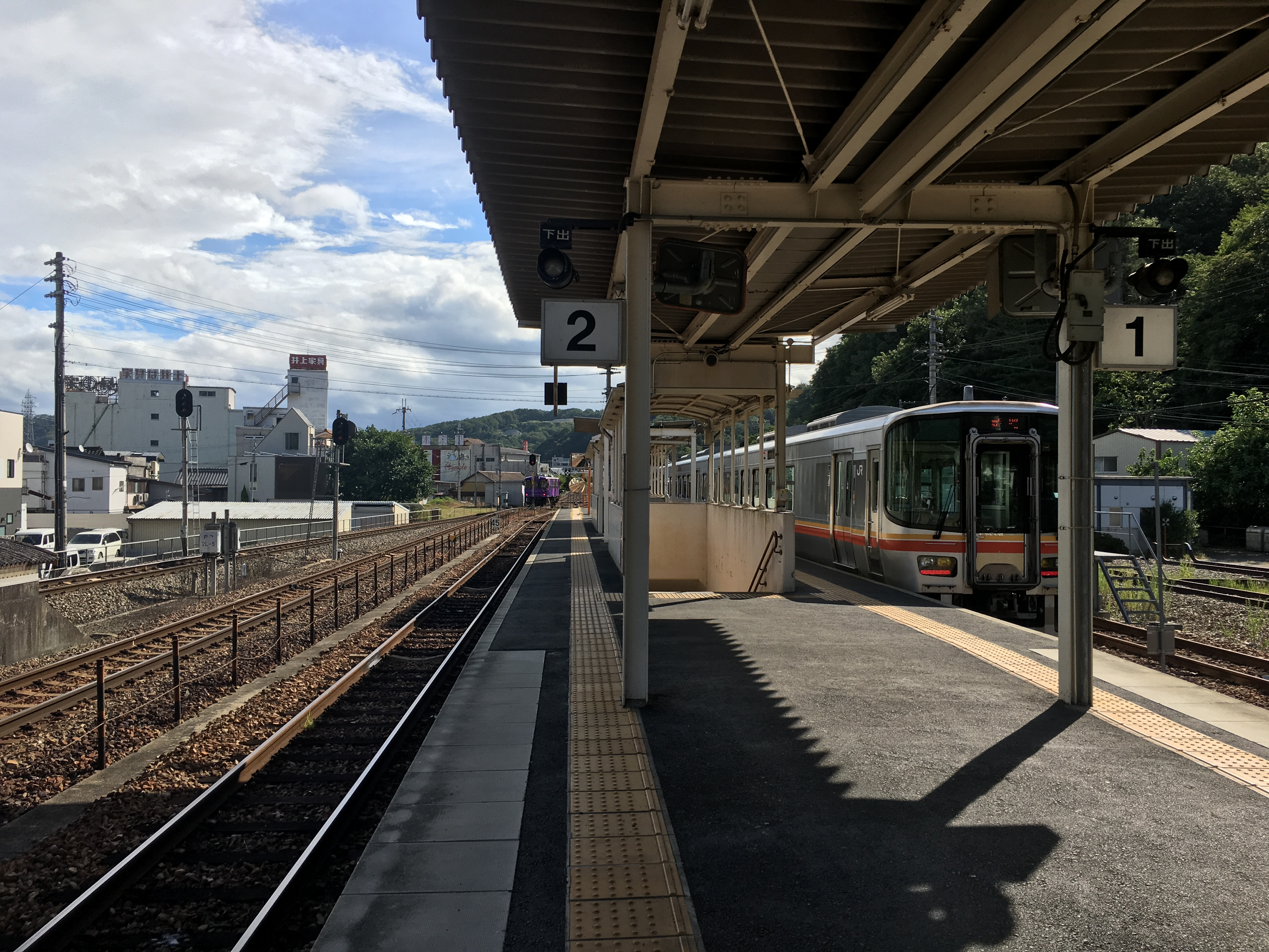 佐用駅のホーム (Sayo Station platforms)